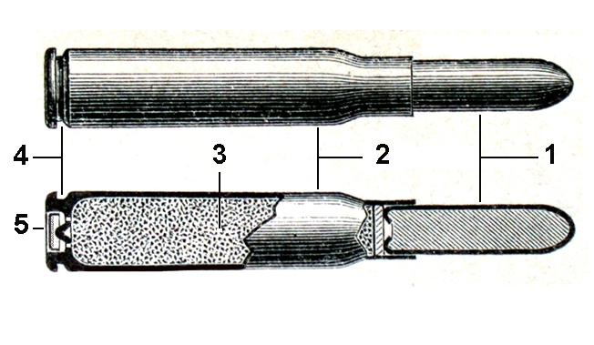 Sectional view of a German 1888 pattern Patrone 88 or M/88 rifle cartridge. 1 = Full Metal Jacket round nose bullet 2 = M88 catridge case 3 = single-base smokeless powder propellant 4 = extraction groove 5 = primer / primer pocket